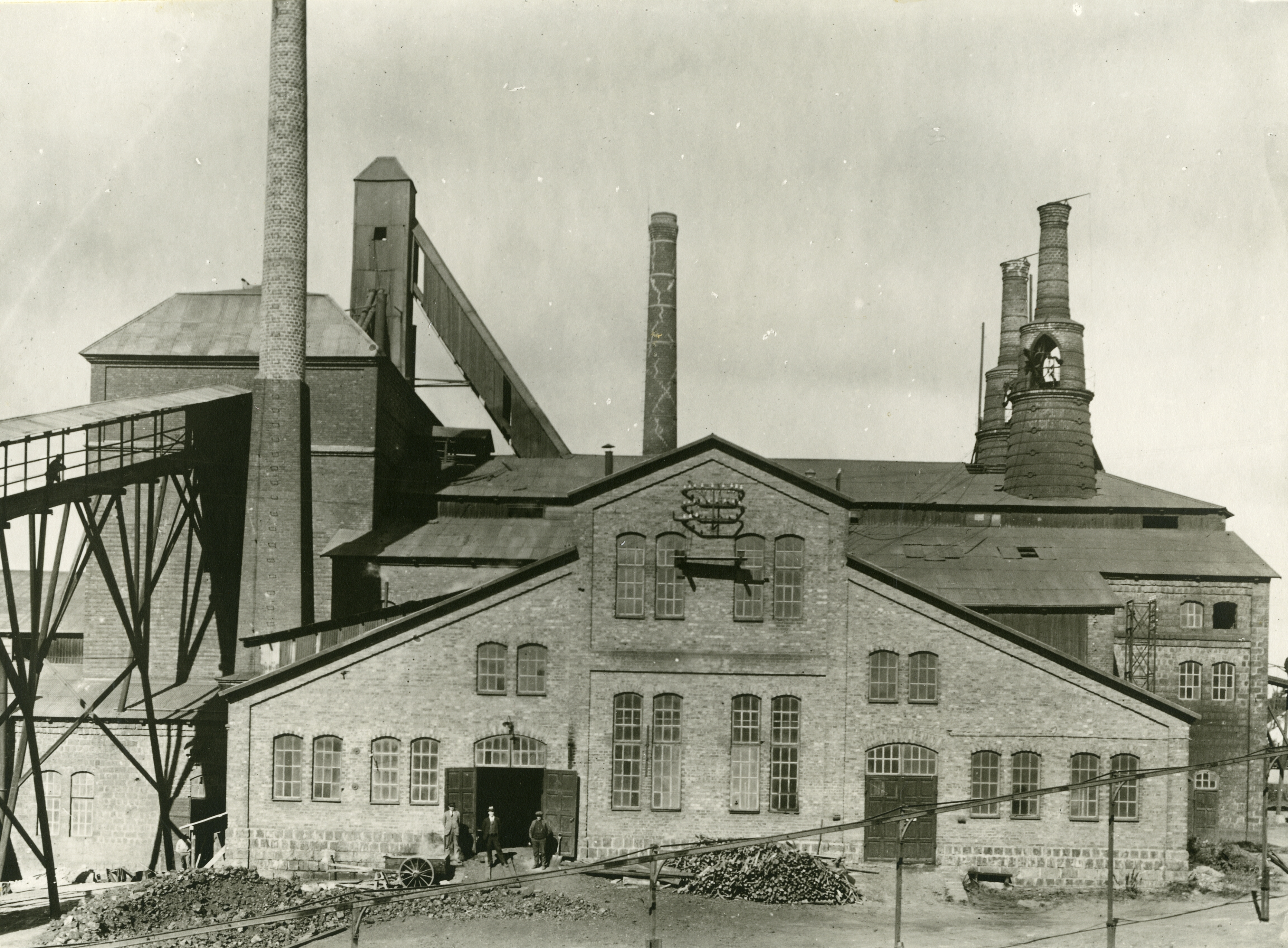 Blast furnace Spännarhyttan, 1926, Norberg, Sweden. Photographer unknown. License Creative Commons PD 1.0 (Public Domain). Owner Surahammars bruk AB gave picture to Tekniska Museet, ID TEKA0148503. Available through Digitalt Museum